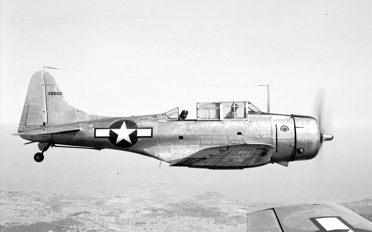 A rare Dauntless photo for the markings as it carries the insignia of the Naval Air Transport Command. Over South San Francisco in April 1946.